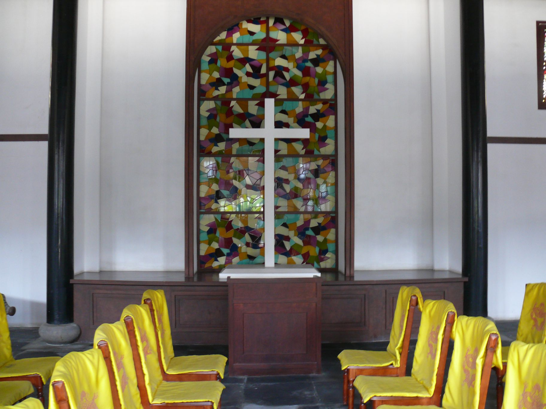 The chapel of Li Xiucheng's mansion in Suzhou (Jiangsu, China).